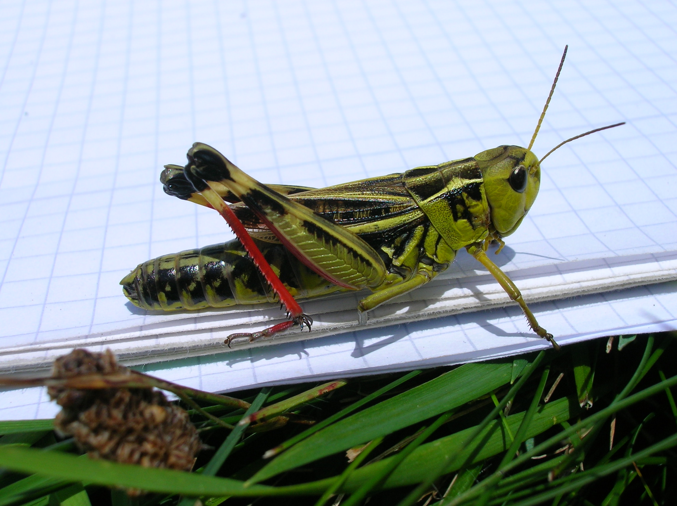 Female Large Banded Grasshopper (Arcyptera fusca) found at Kaunerberg, Austria at an elevation of about 1600 m AMSL. Size of the grid-cells on the notebook is 5×5 mm → body length about 4 cm.